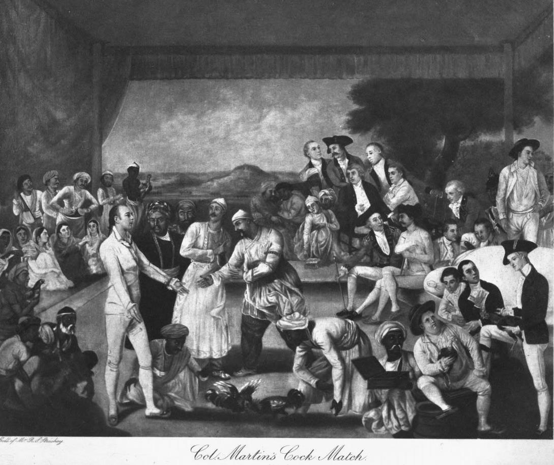 The Ashwick version of Colonel Mordaunts Cock Match by Johann Zoffany